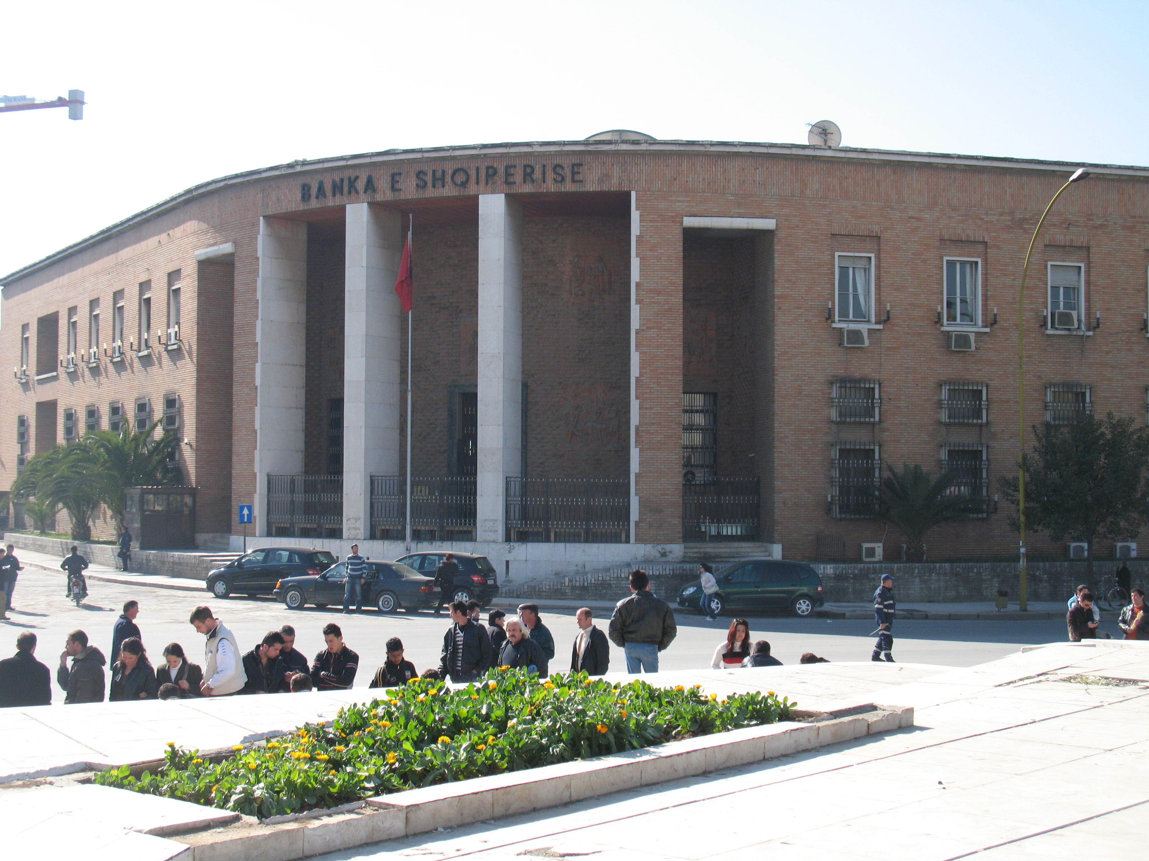 Tha seat of the Central Bank of Albania in the capital city Tirana.